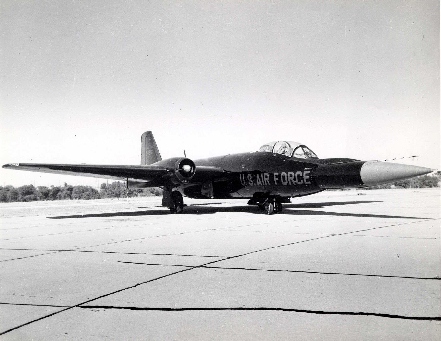 Martin B-57E Canberra with nose grafted from Bomarc missile